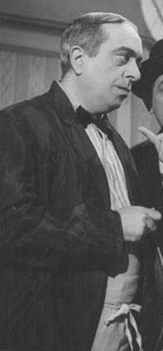 Arturo Palito- actor argentino